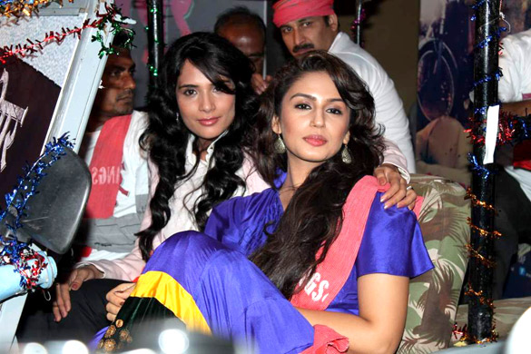 Nawazuddin Siddiqui,Huma Qureshi,Richa Chadda,Manoj Tiwari From The Press meet of 'Gangs Of Wasseypur'